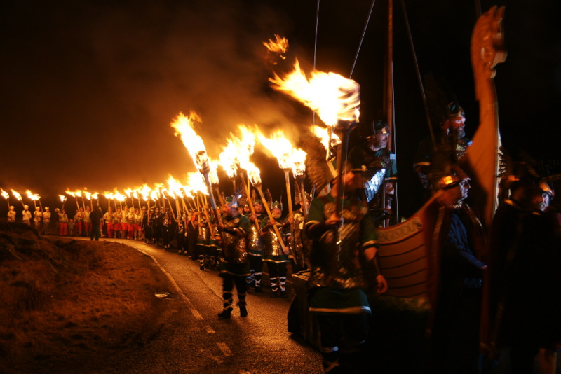 Procession at Uyeasound Up Helly Aa Guisers follow the Guiser Jarl in the galley in the torchlit procession for Uyeasound Up Helly Aa.